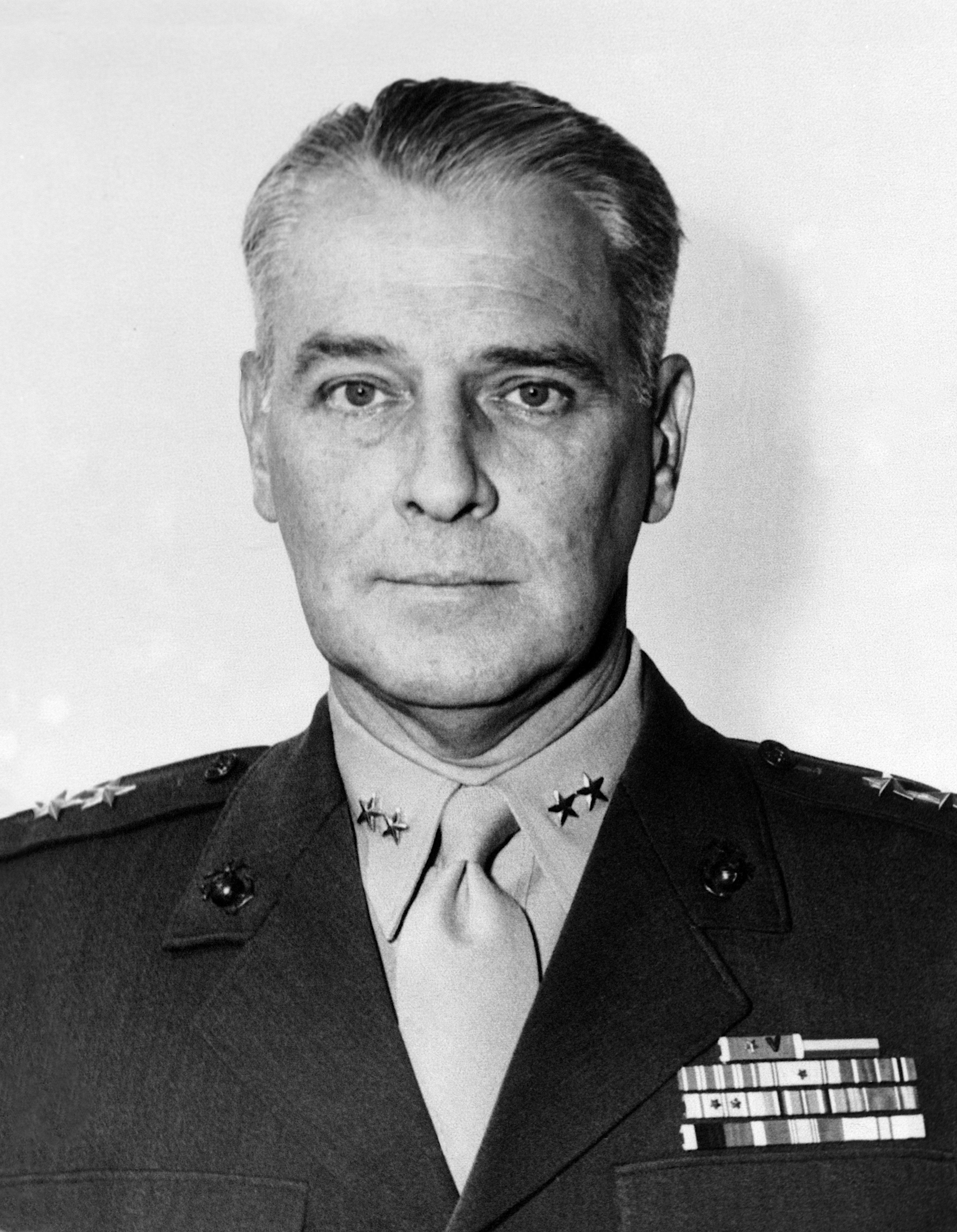 George Franklin Good Jr. (September 16, 1901 - October 25, 1991) was a decorated officer of the United States Marine Corps with the rank of Lieutenant General. Good is most noted for his service as Commander of the Marine Defense Force of Funafuti during World War II and later as Commanding general of Department of the Pacific. Defense Department Photo (Marine Corps): A49716